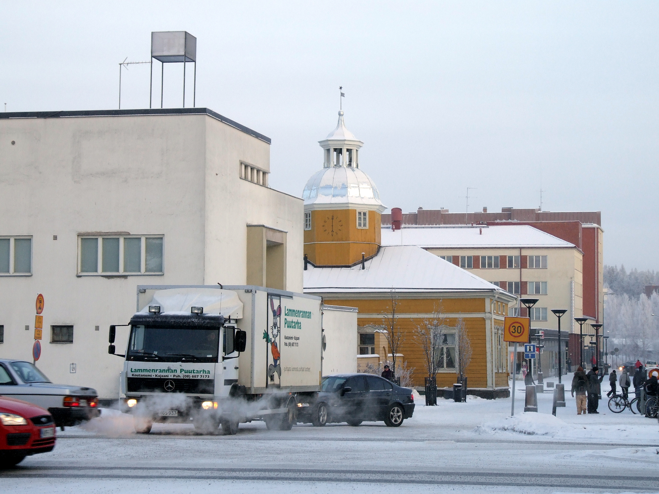 Linnankatu street, Kajaani Finland.